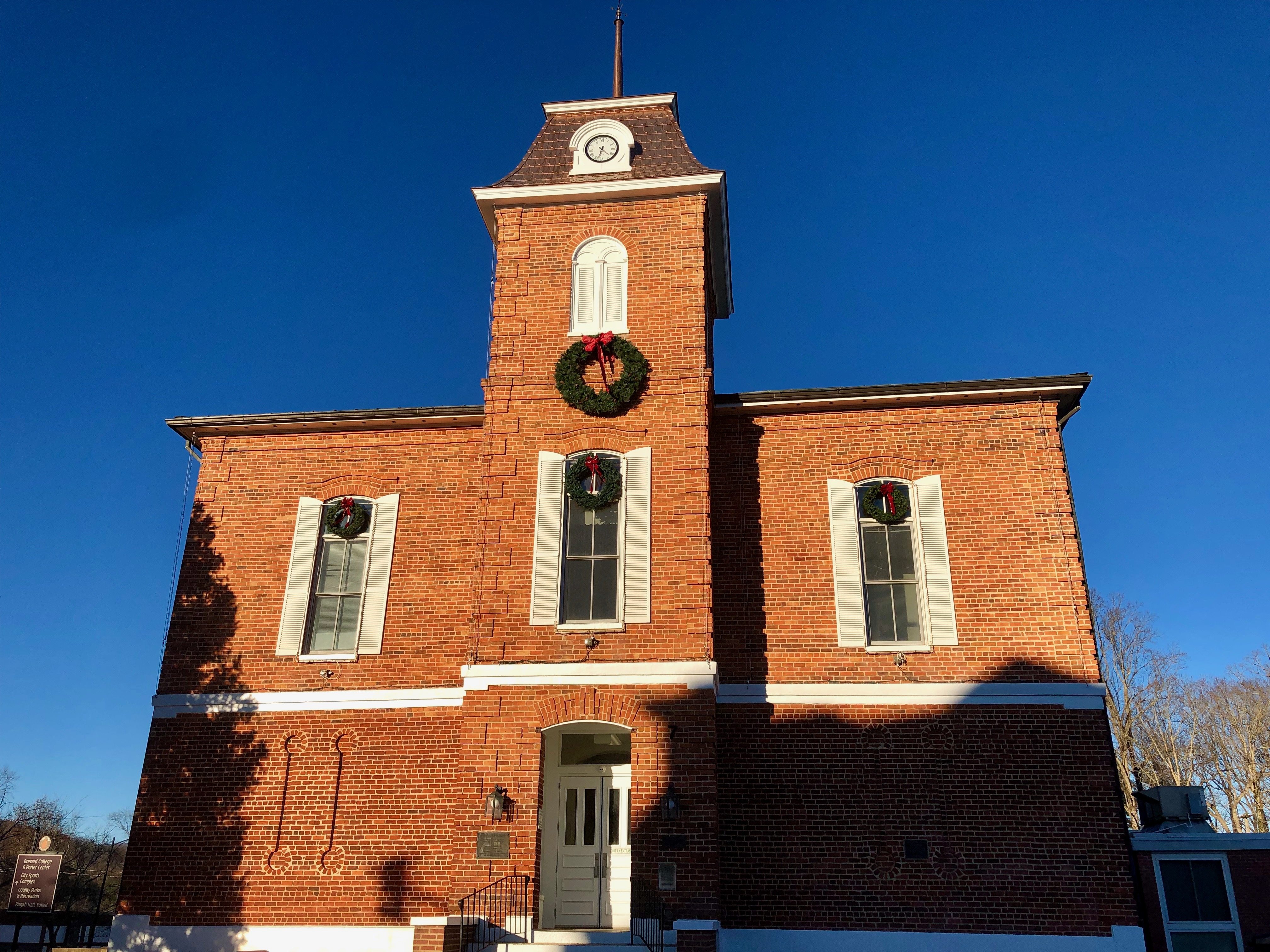 Constructed in 1873.